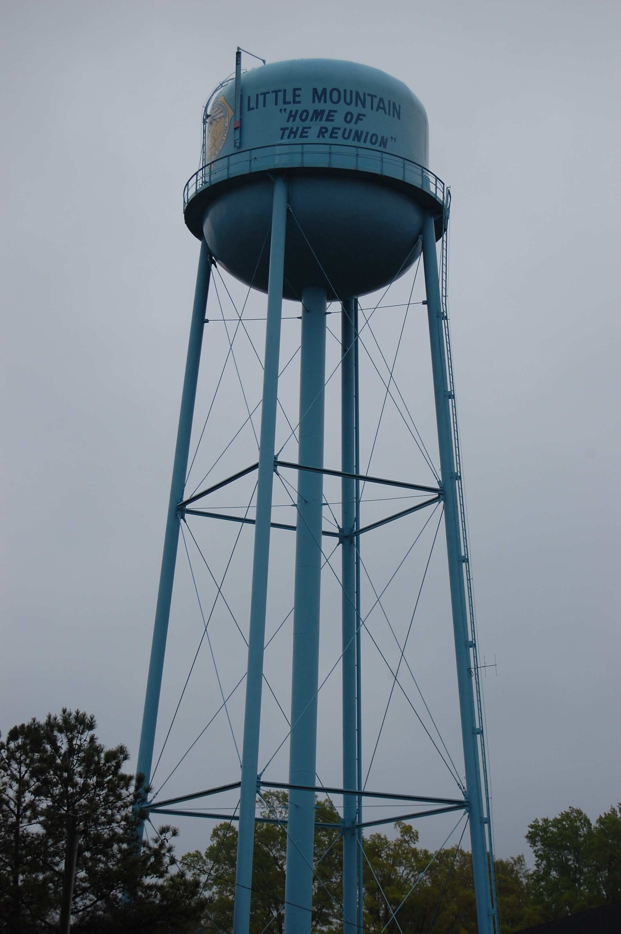 Water tower in downtown Little Mountain, South Carolina